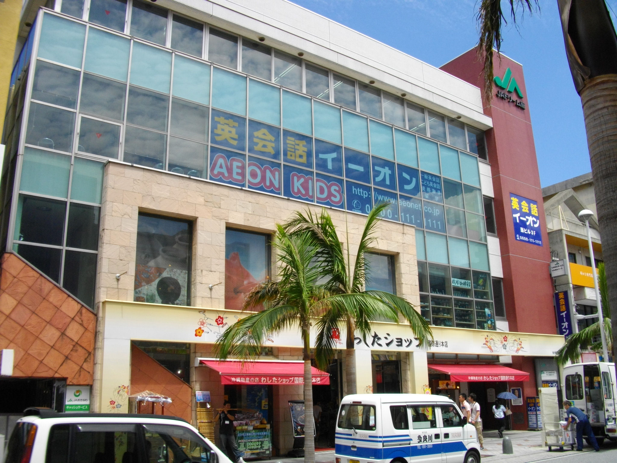 Washita Shop Head Shop